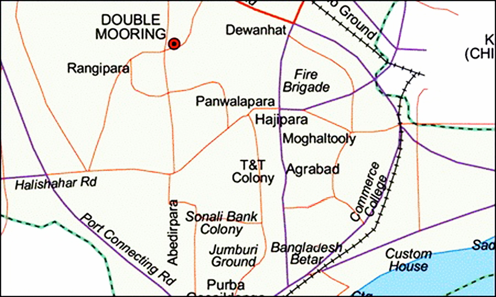 This is a map of Agrabad, Chittagong, Bangladesh